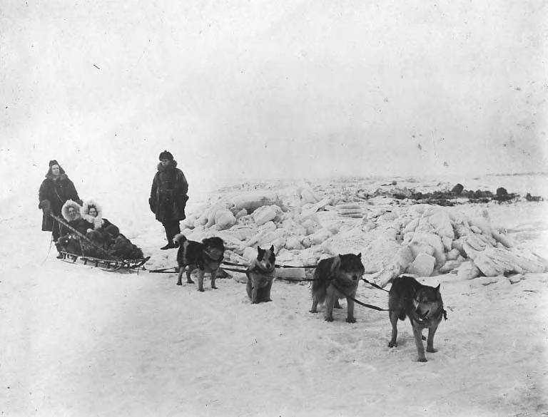 PH Coll 413.Album 4.5 Subjects (LCTGM): Dog teams--Alaska; Sleds & sleighs--Alaska; Passengers--Alaska; Fur garments Subjects (LCSH): Sled dogs--Alaska; Mushers--Alaska; Parkas--Alaska